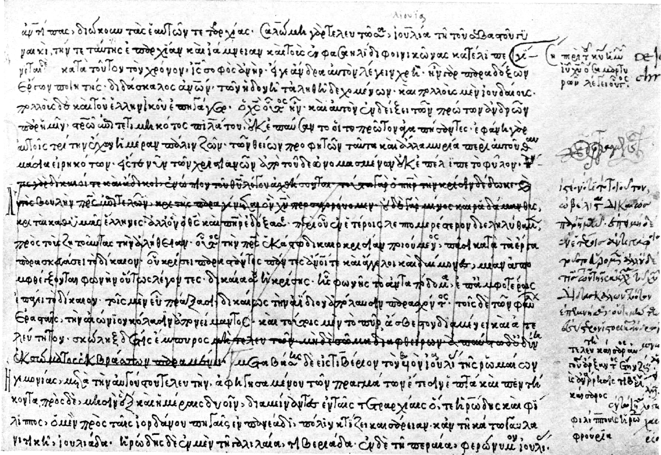 Reproduction showing the so-called Testimonium Flavianum inserted into Flavius Josephus’ ”Jewish War” at 2.167; Codex Vossianus, Graec. F 72, early 15th century.